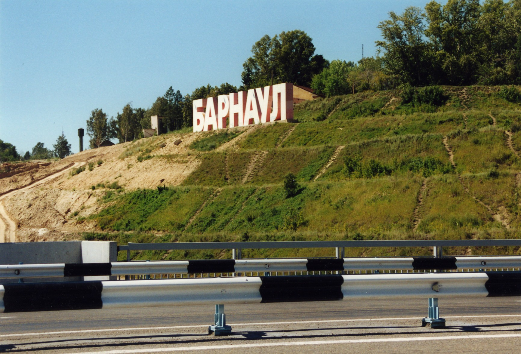 A highway to Barnaul city (Russia) with its name (Барнаул) written on the hill.